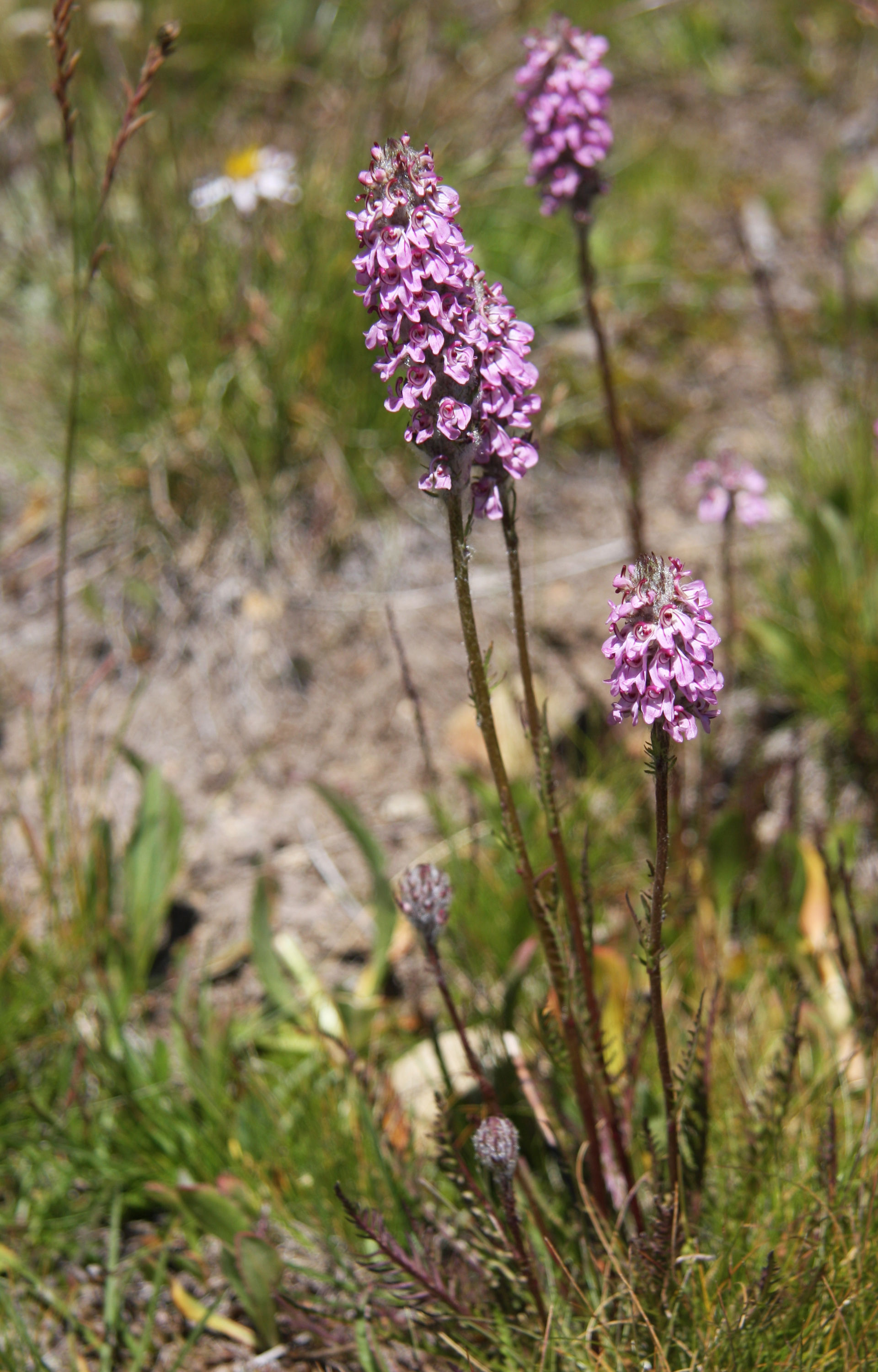 Little elephant's head (Pedicularis attolens) plants, showing flower stalks and finely dissected leaves. At 10,200ft by Summit Lake in Hoover Wilderness, Sierra Nevada USA.